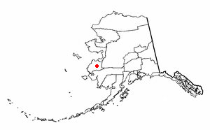 Adapted from Wikipedia's AK borough maps by Seth Ilys.